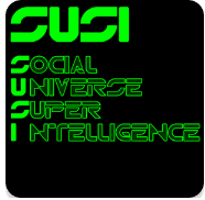 SusiLogo